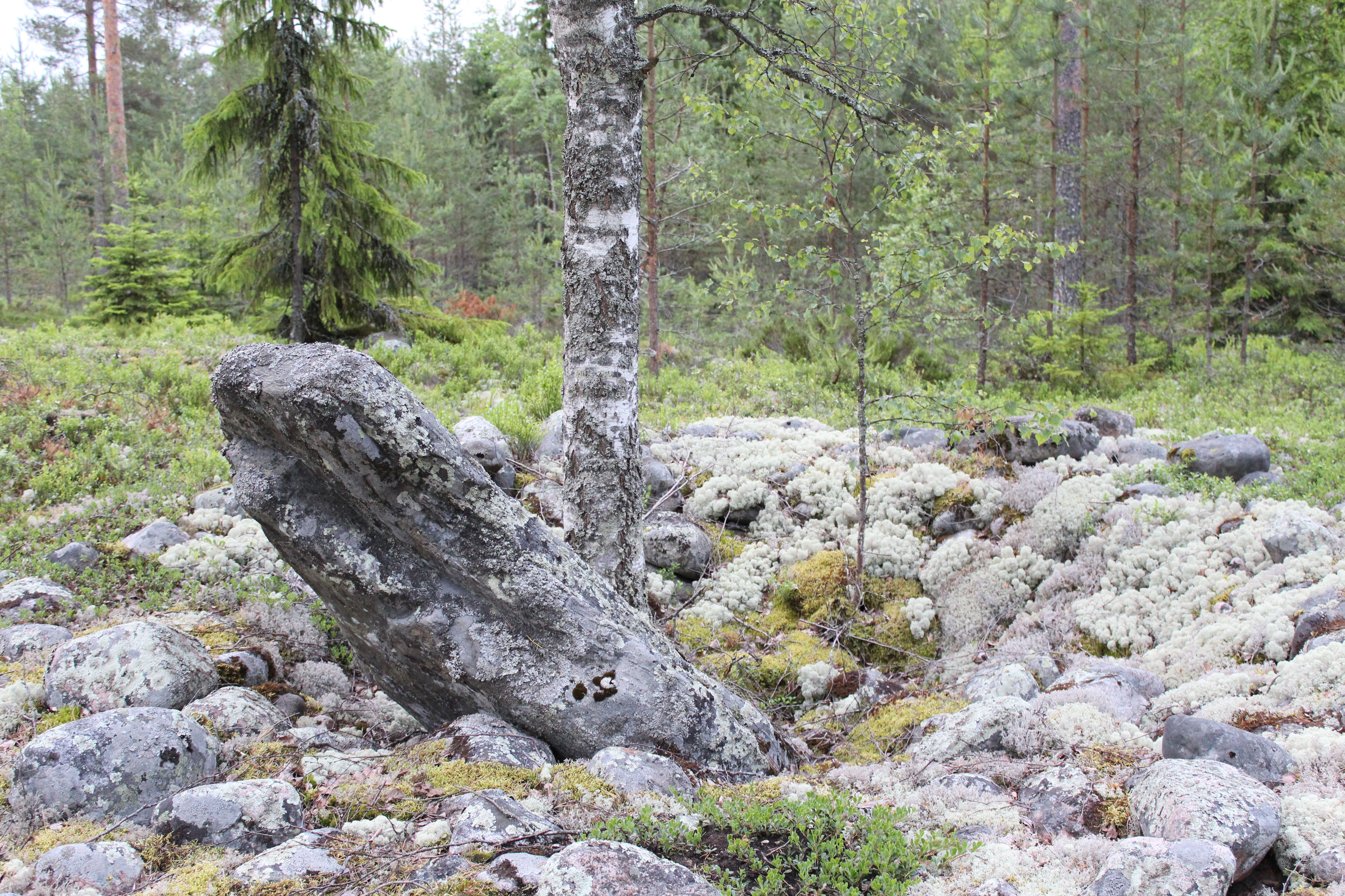 Large stone in a semi-standing position, located at the archaeological site of Olliscbacken in Kronoby, Finland